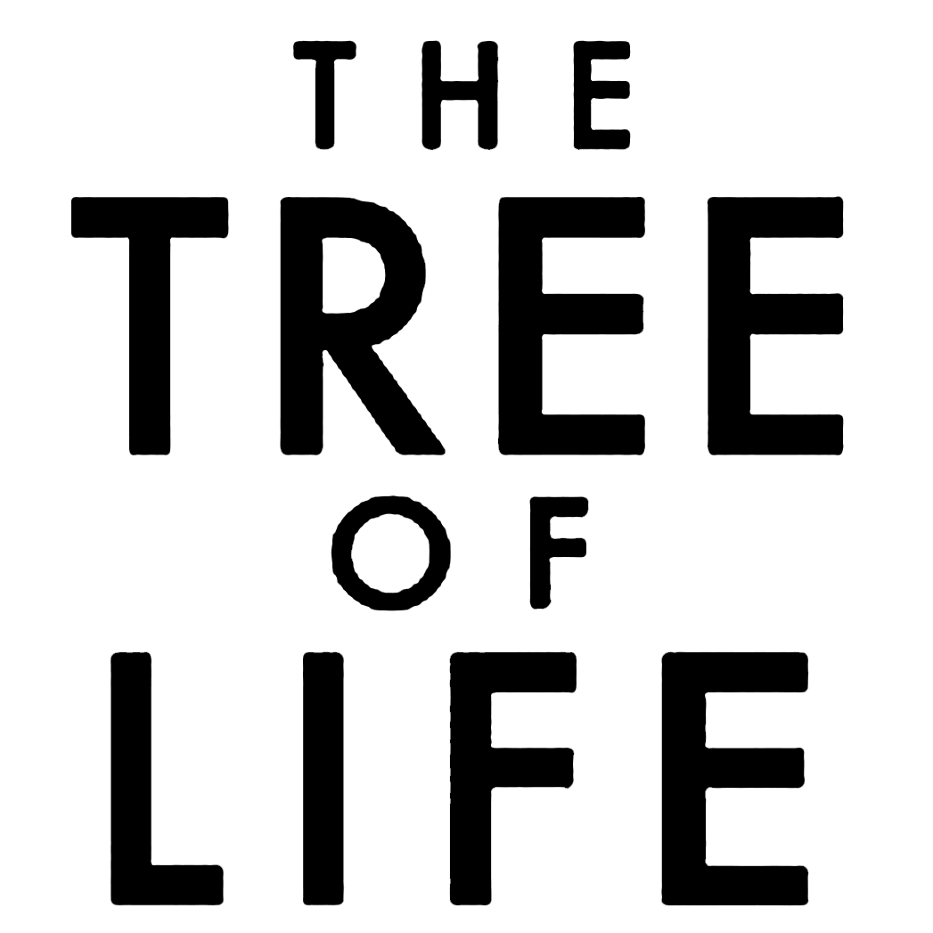 The Tree of Life logo